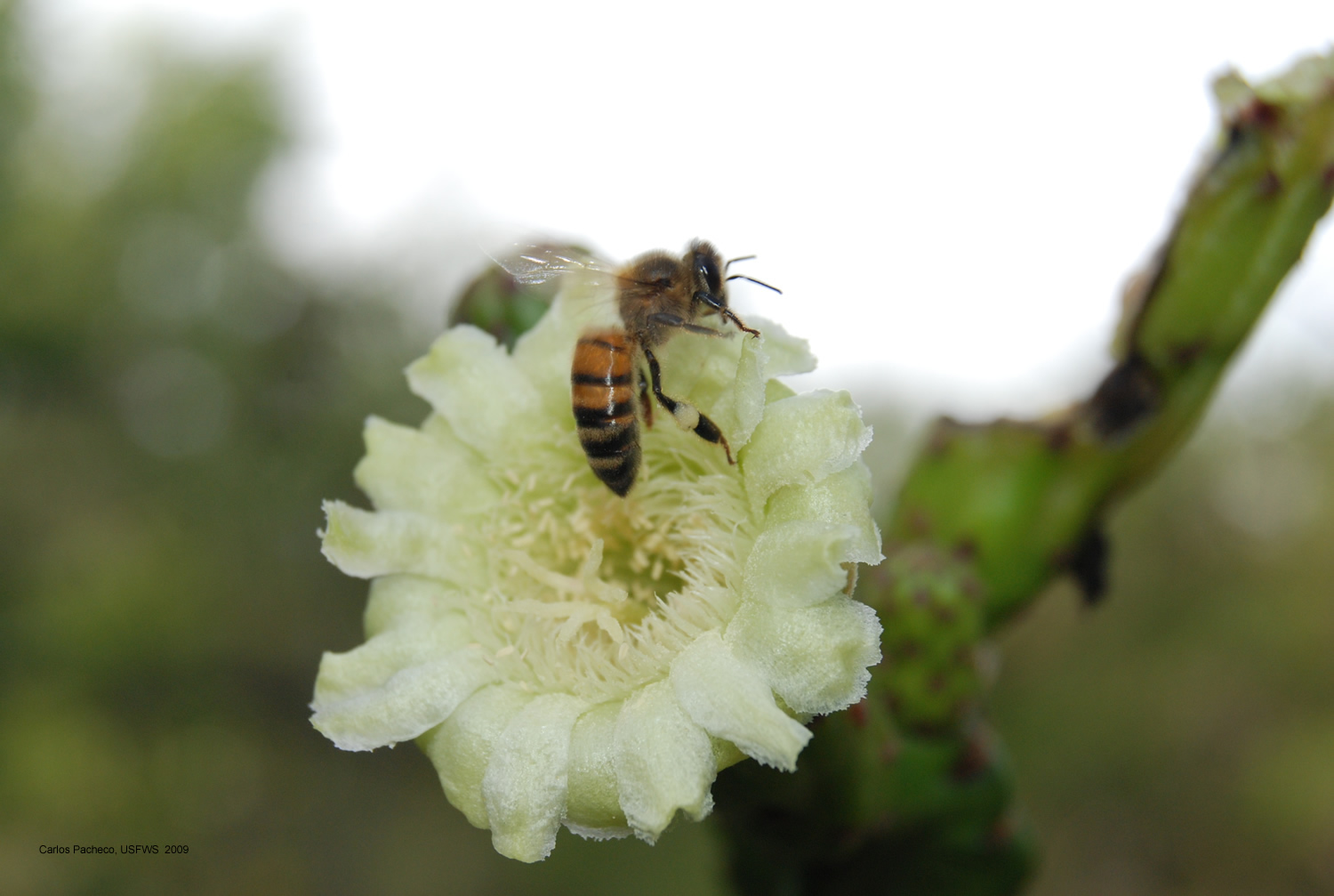 This flower opens at night and attracts pollinators. no common name Status: endangered Listed on February 26, 1993 Photo by: Carlos Pacheco, USFWS Cactus Trail, Cabo Rojo National Wildlife Refuge, Cabo Rojo, Puerto Rico More informantion